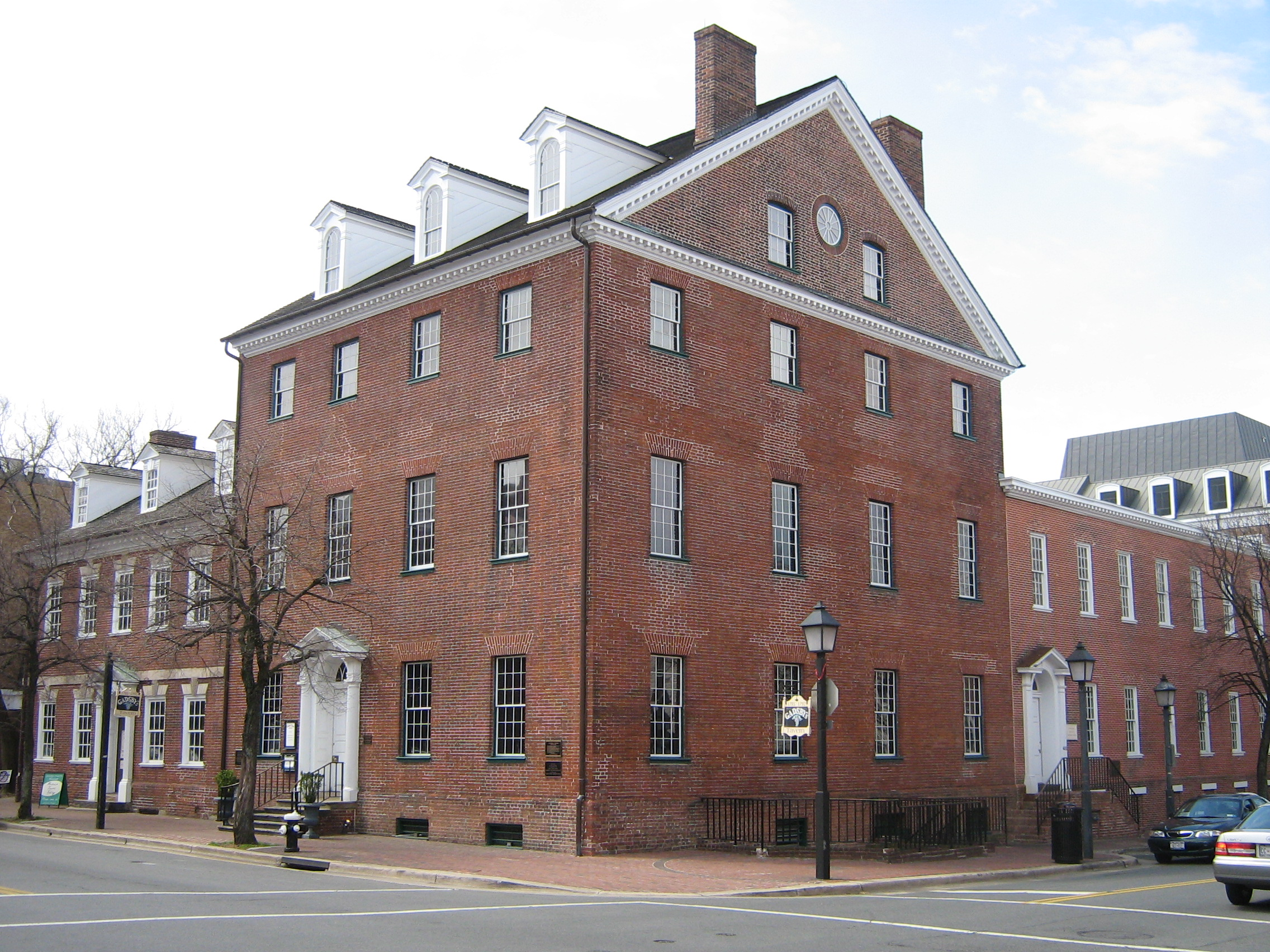 Gadsby's Tavern in Old Town Alexandria where George Washington used to drink and where Thomas Jefferson celebrated his presidential inauguration.